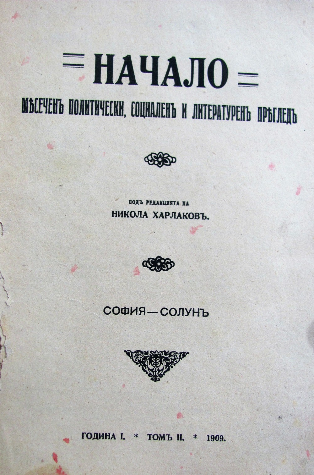 Nachalo II, 1, April 1909 Title Page